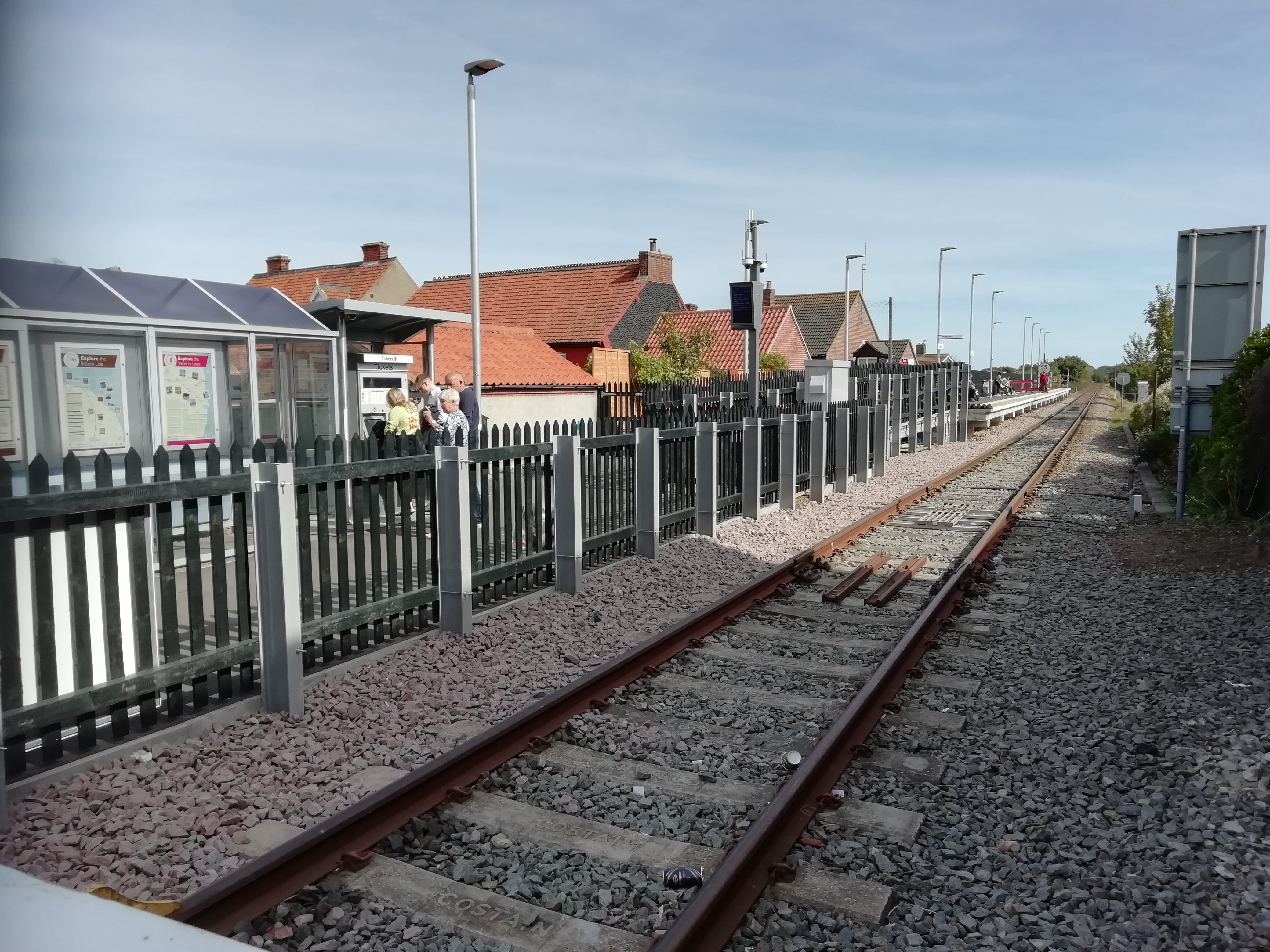 The new Network Rail station at Sheringham, soon after opening.